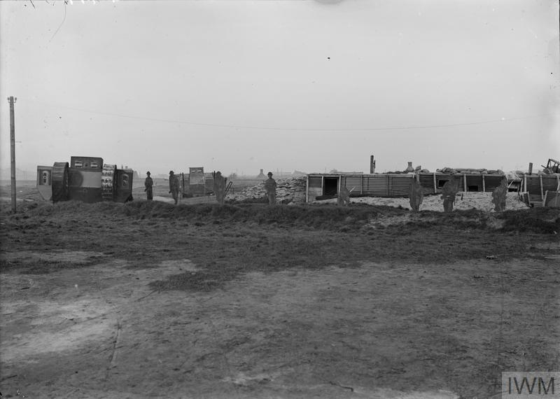 Dummy tanks and attack figures